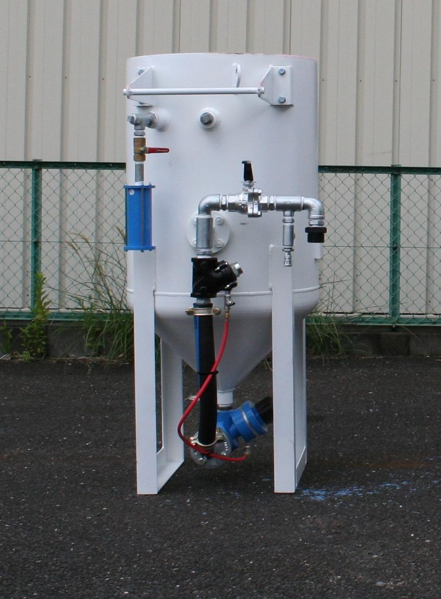 air blasting pot